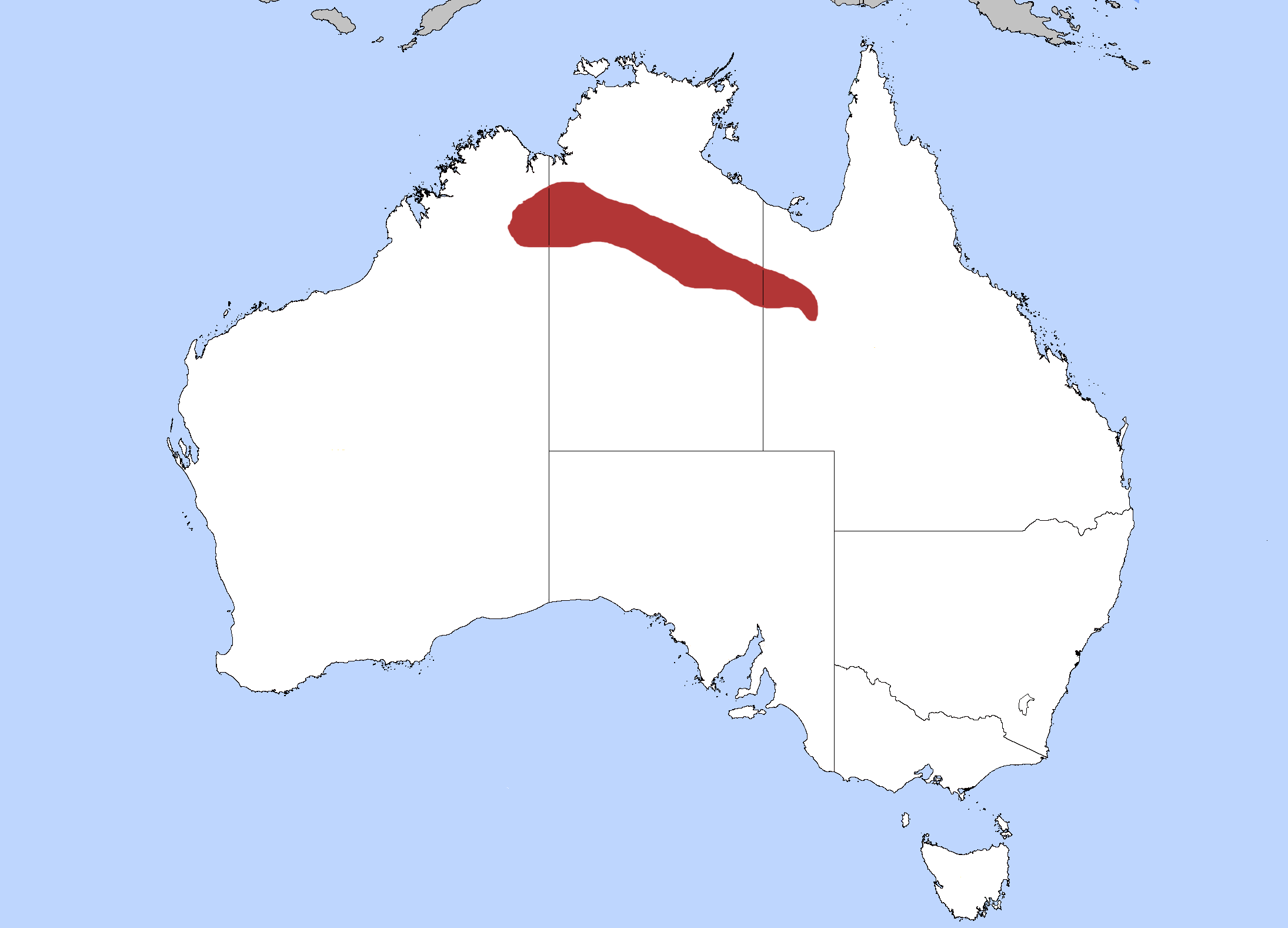 The Blacksoil Toadlet's Distribution.